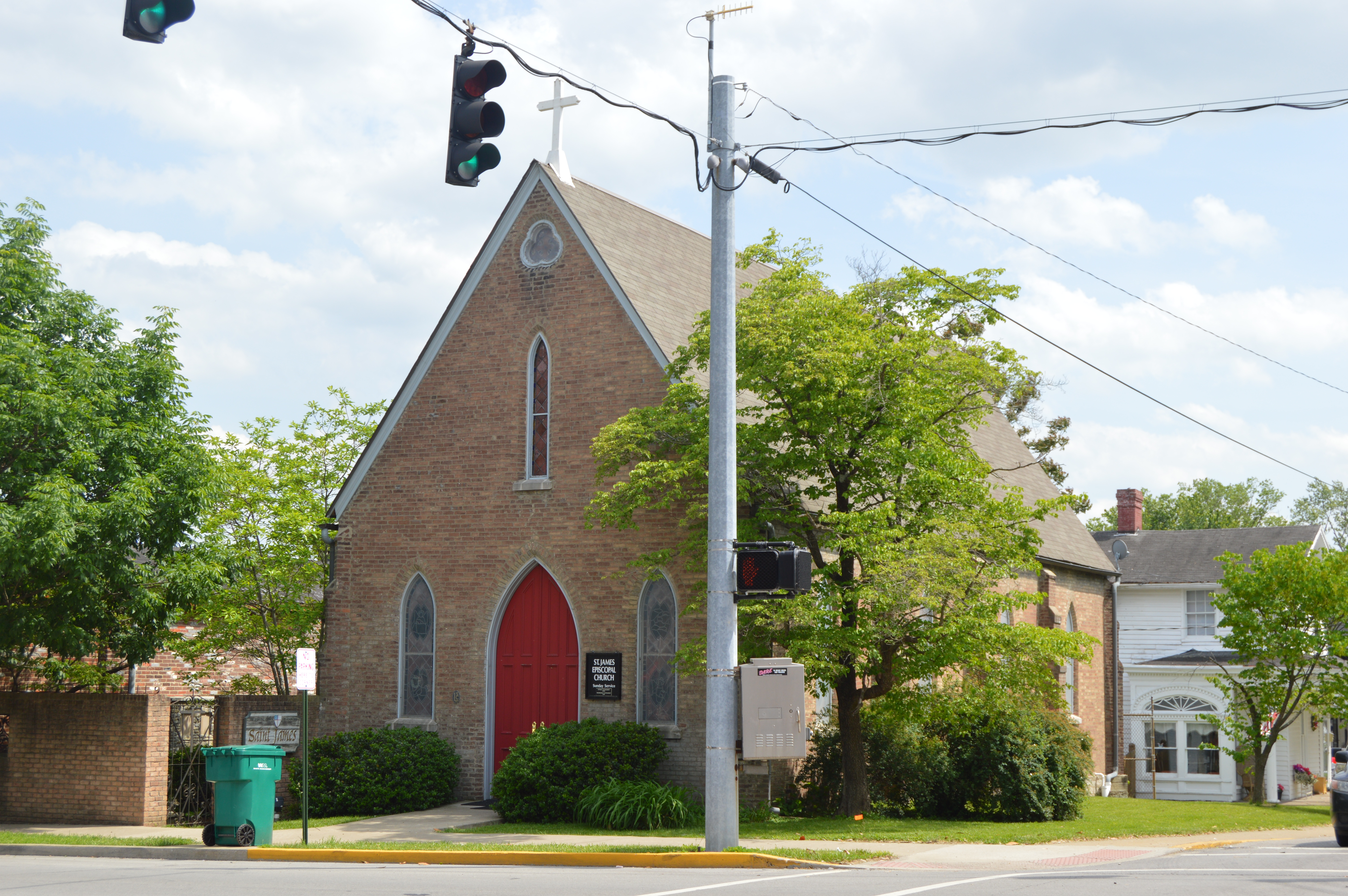 Front and western side of St. James' Episcopal Church, located at 300 Main Street (U.S. Route 60) in Shelbyville, Kentucky, United States. Built in 1865, it is part of the East Shelbyville District, a historic district that is listed on the National Register of Historic Places.